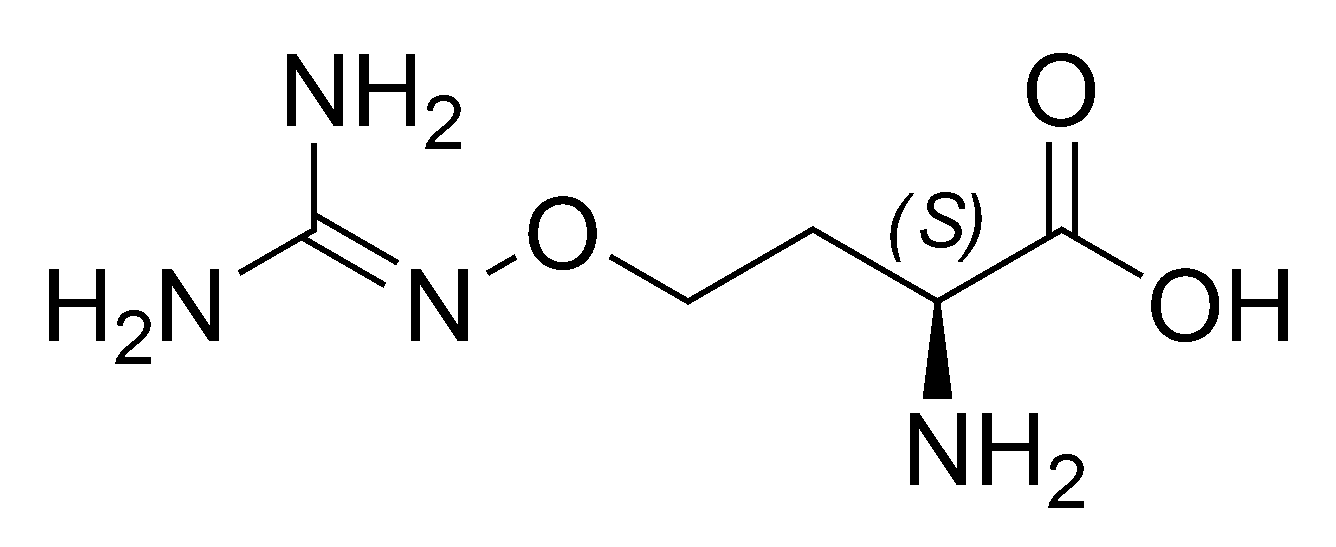 Chemical structure of canavanine